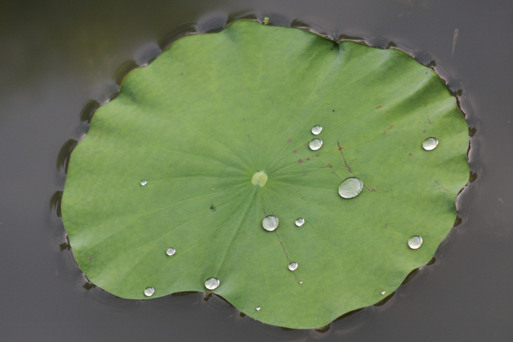 Taken at Lions Nature Education Centre.